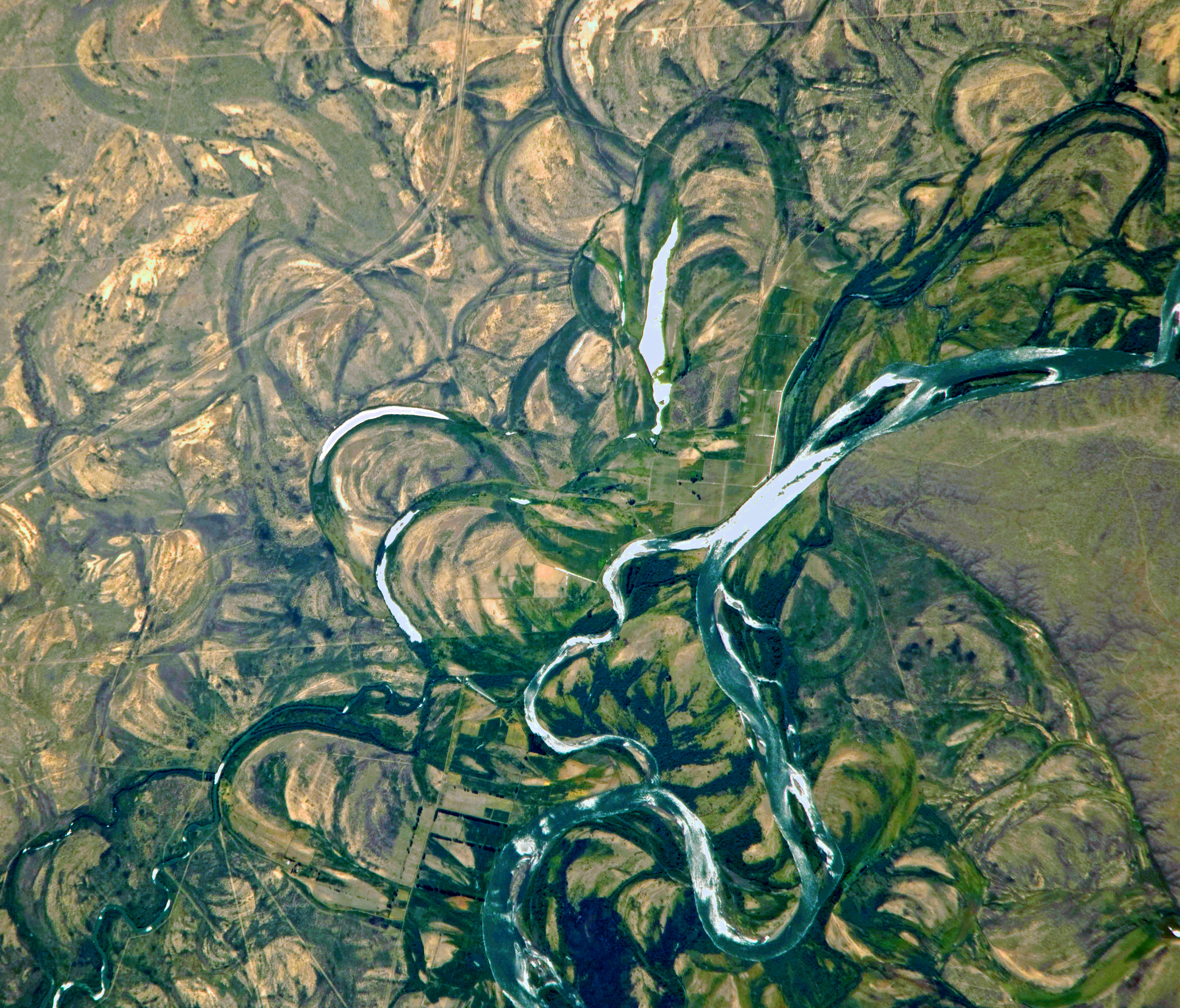 Country or Geographic Name: ARGENTINA Features: RIO NEGRO, COLONEL JOSEFA AREA, FLOOD PLAIN Center Point Latitude: -39.8 Center Point Longitude: -65.4